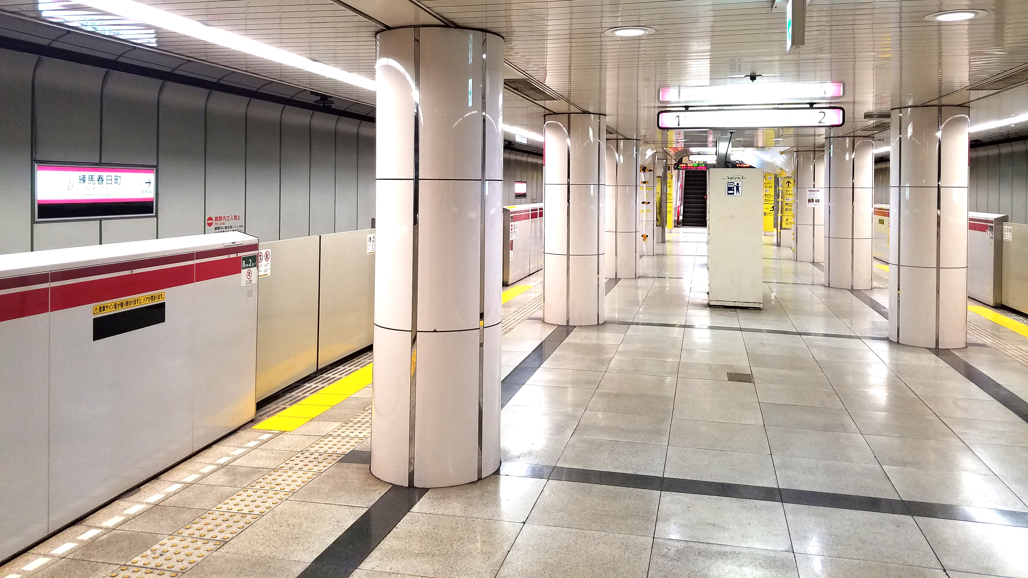 The platform at Nerima-kasugachō Station on the Toei Ōedo Line in Nerima city, Tokyo, Japan